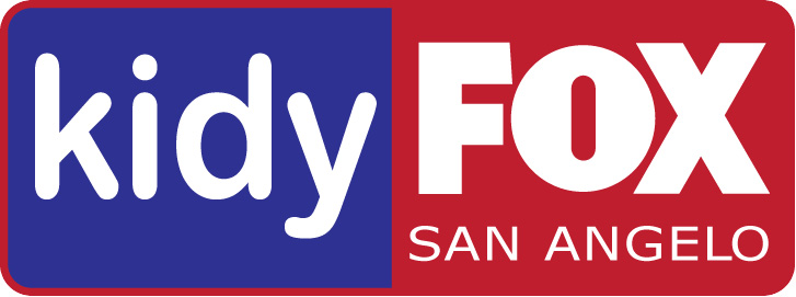 KIDY FOX San Angelo television station logo